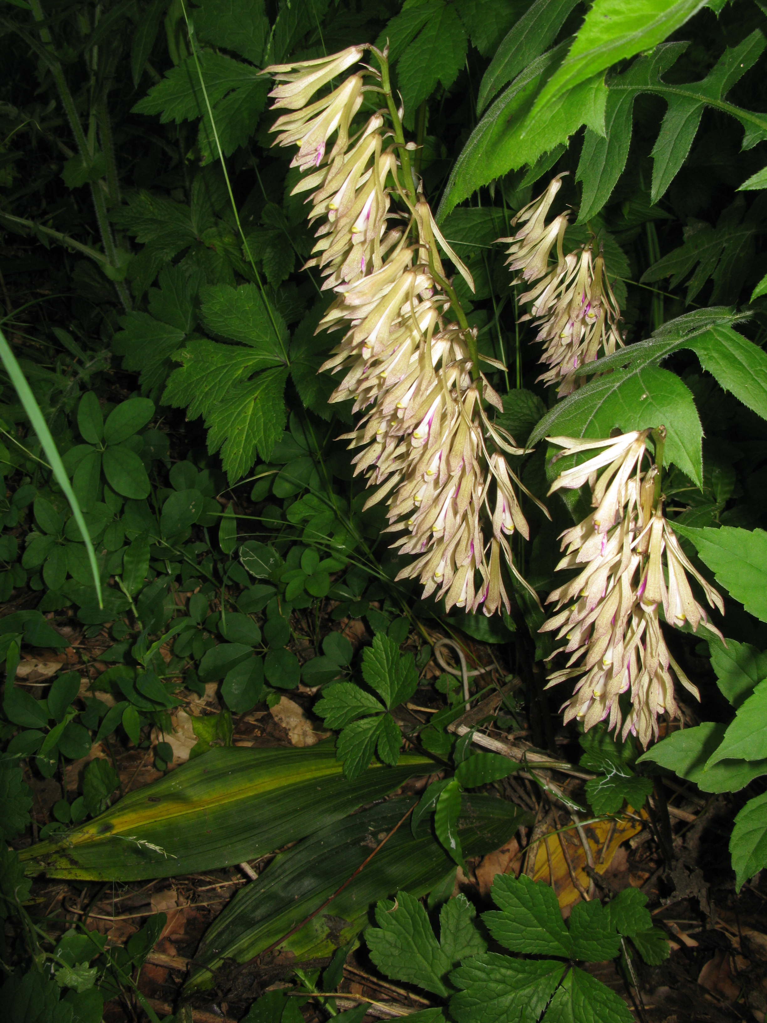 Cremastra appendiculata, flower, Aizu area, Fukushima pref., Japan